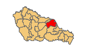 Location of municipality inside Međimurje County